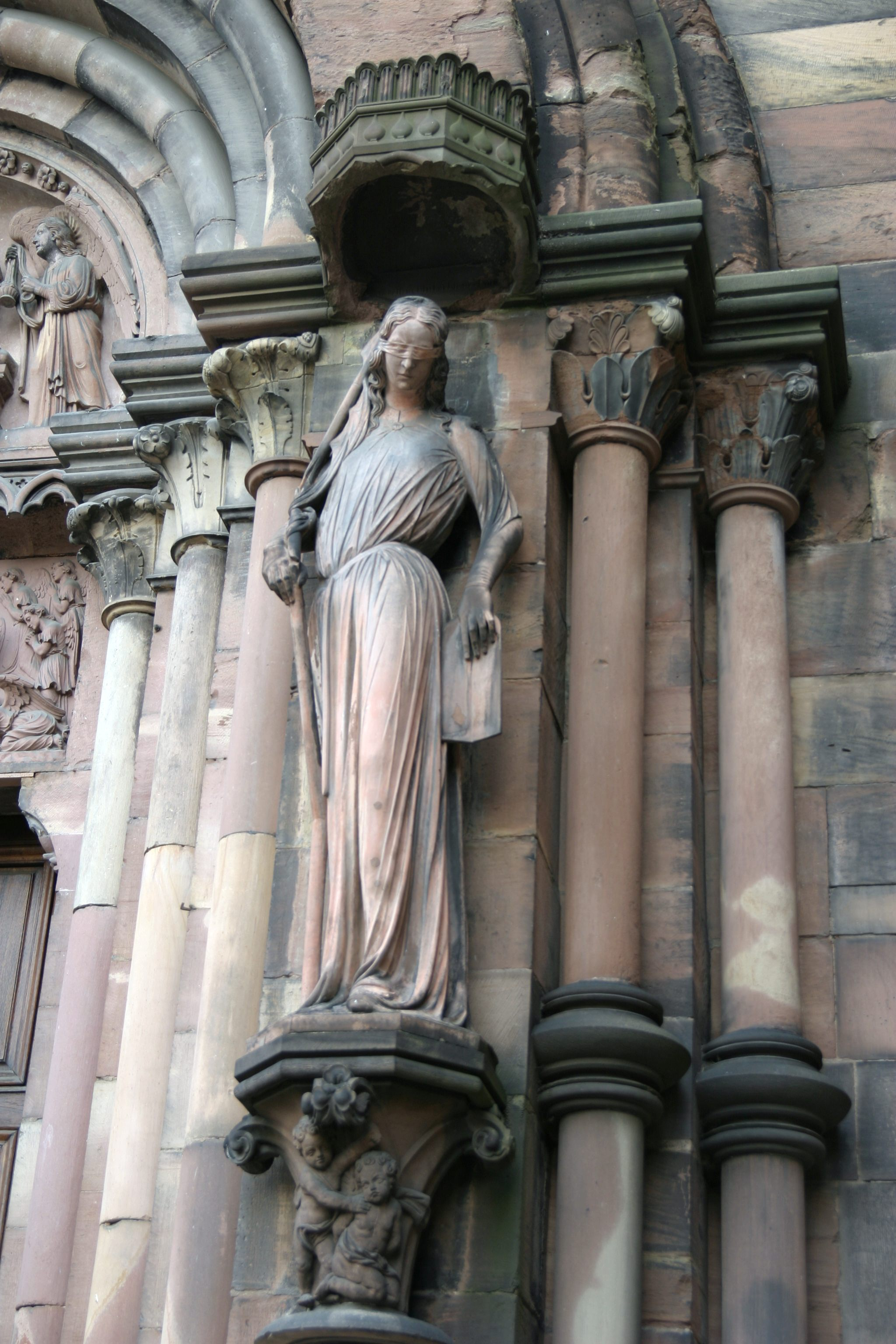 This image was taken at Strasbourg Cathedral, Strasbourg.